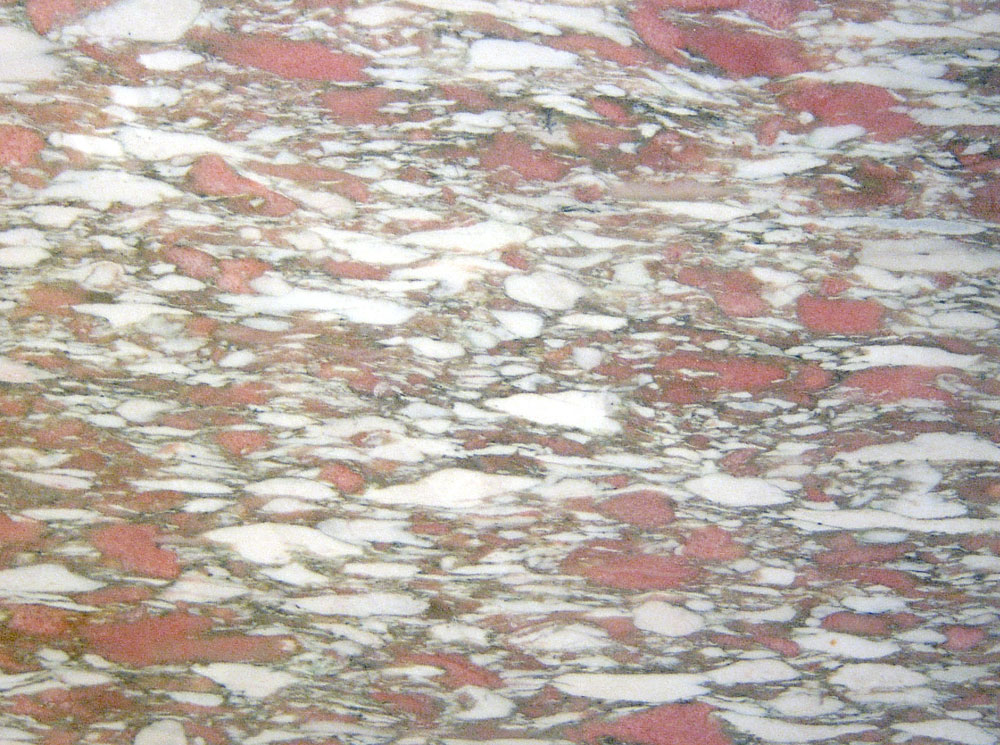 Marble from Fauske in Norway. Glossy surface.